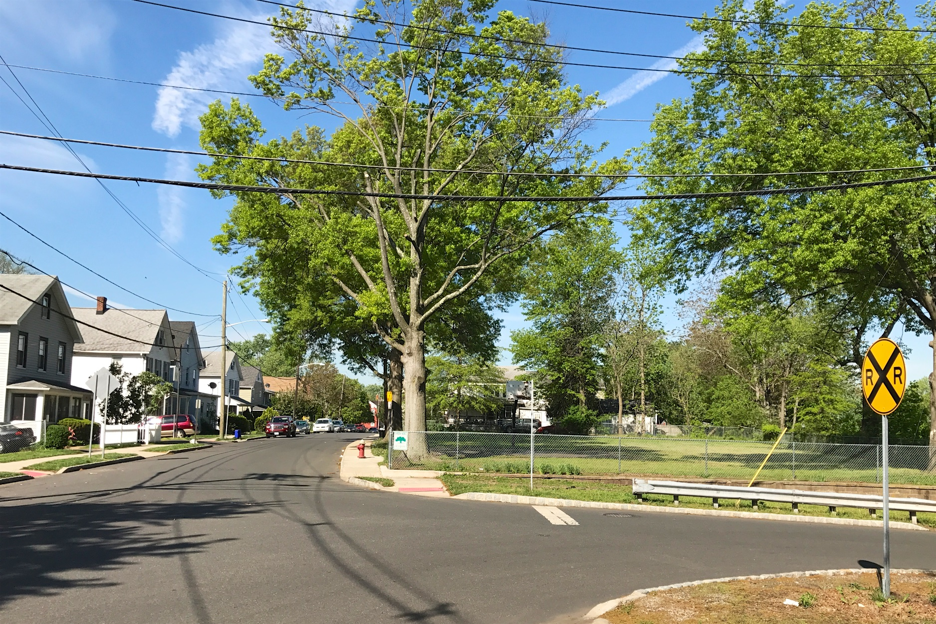 Looking west along West Main Street at the intersection of Vosseller Avenue in the Middlebrook section of Bound Brook, New Jersey. The vacant, grassy lot on the right was the site of the former Fisher Hotel, known as the Middlebrook Hotel during the Revolutionary War.